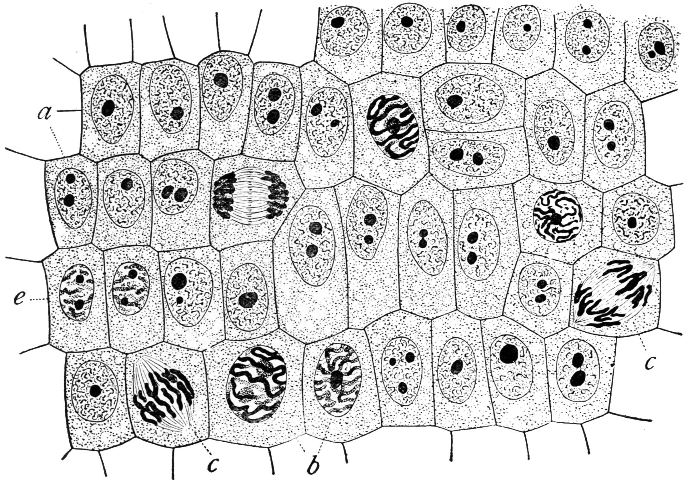 Original figure legend: "General view of cells in the growing root-tip of the onion, from a longitudinal section, enlarged 800 diameters. a. non-dividing cells, with chromatin-network and deeply stained nucleoli; b. nuclei preparing for division (spireme-stage); c. dividing cells showing mitotic figures; e. pair of daughter-cells shortly after division."